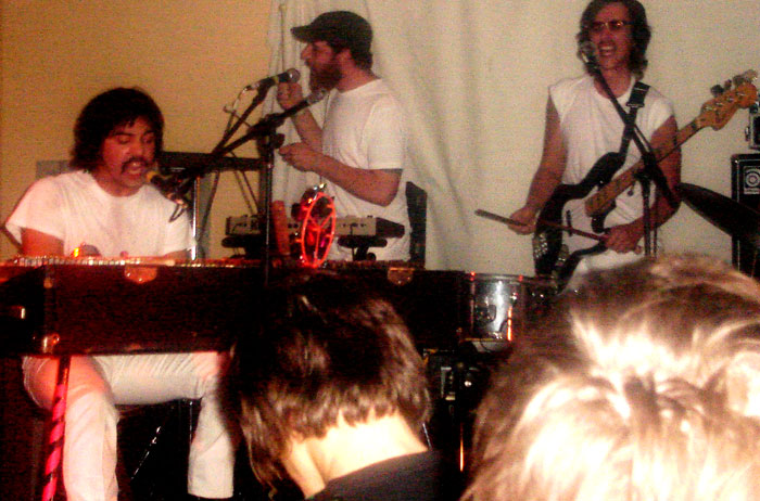 Man Man playing live at El Salon for Pop Montreal festival, 1 October 2005.